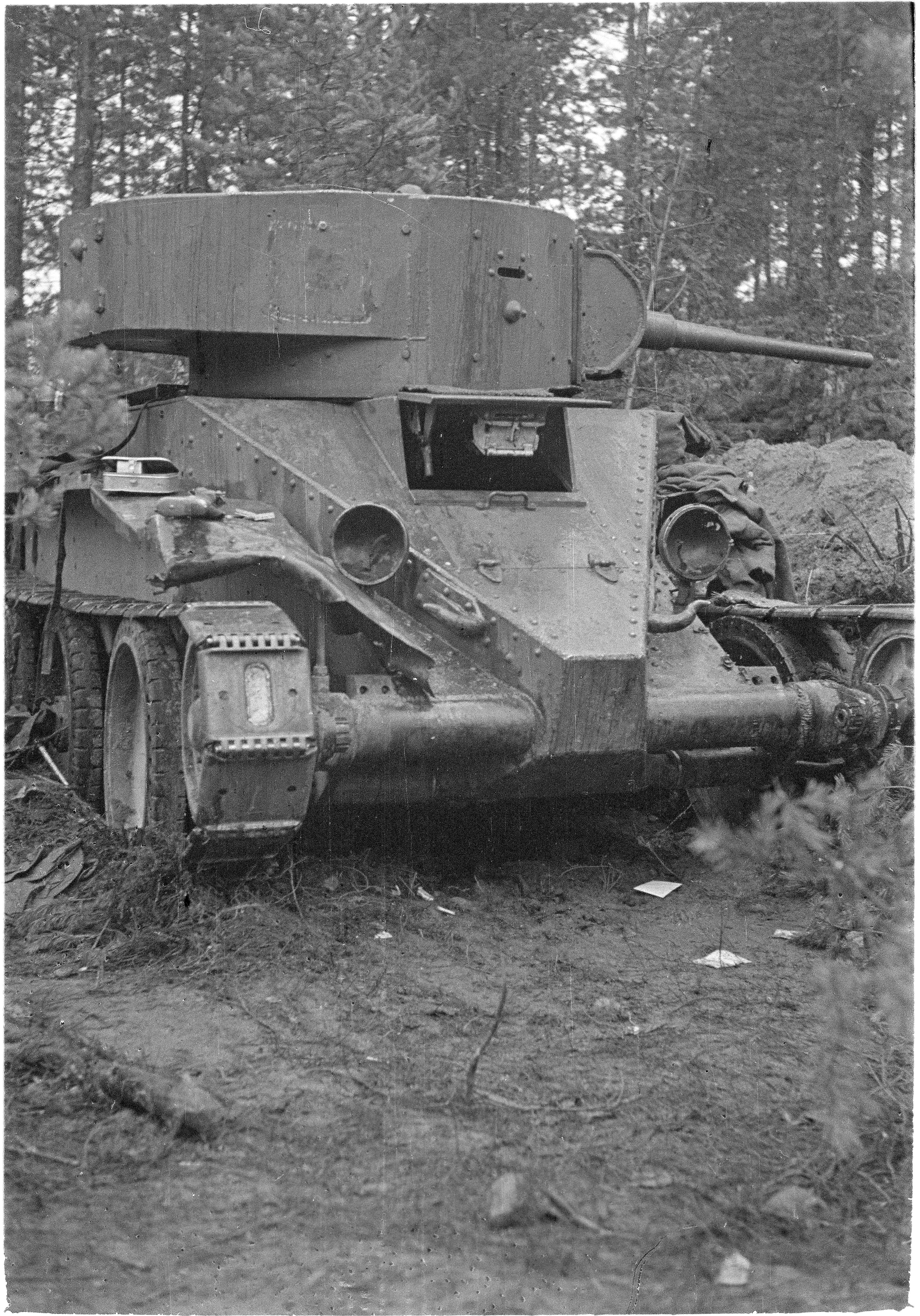 Soviet BT-5 tank captured by Finnish army.